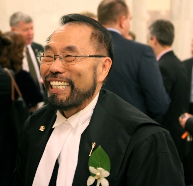 Calgary-Fort PC MLA and Deputy Speaker Wayne Cao at the 2011 Speech from the Throne. February 22, 2011.